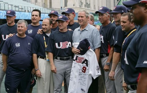 President George W. Bush poses for a photo with the U.S. Olympic men's baseball team and their manager Davey Johnson, right, prior to a practice game with the Chinese Olympic men's baseball team Monday Aug. 11, 2008, at the 2008 Summer Olympic Games in Beijing. The U.S. Olympic men's baseball team presented President Bush with a U.S. Olympic baseball hat and an autographed U.S. Olympic baseball jersey.